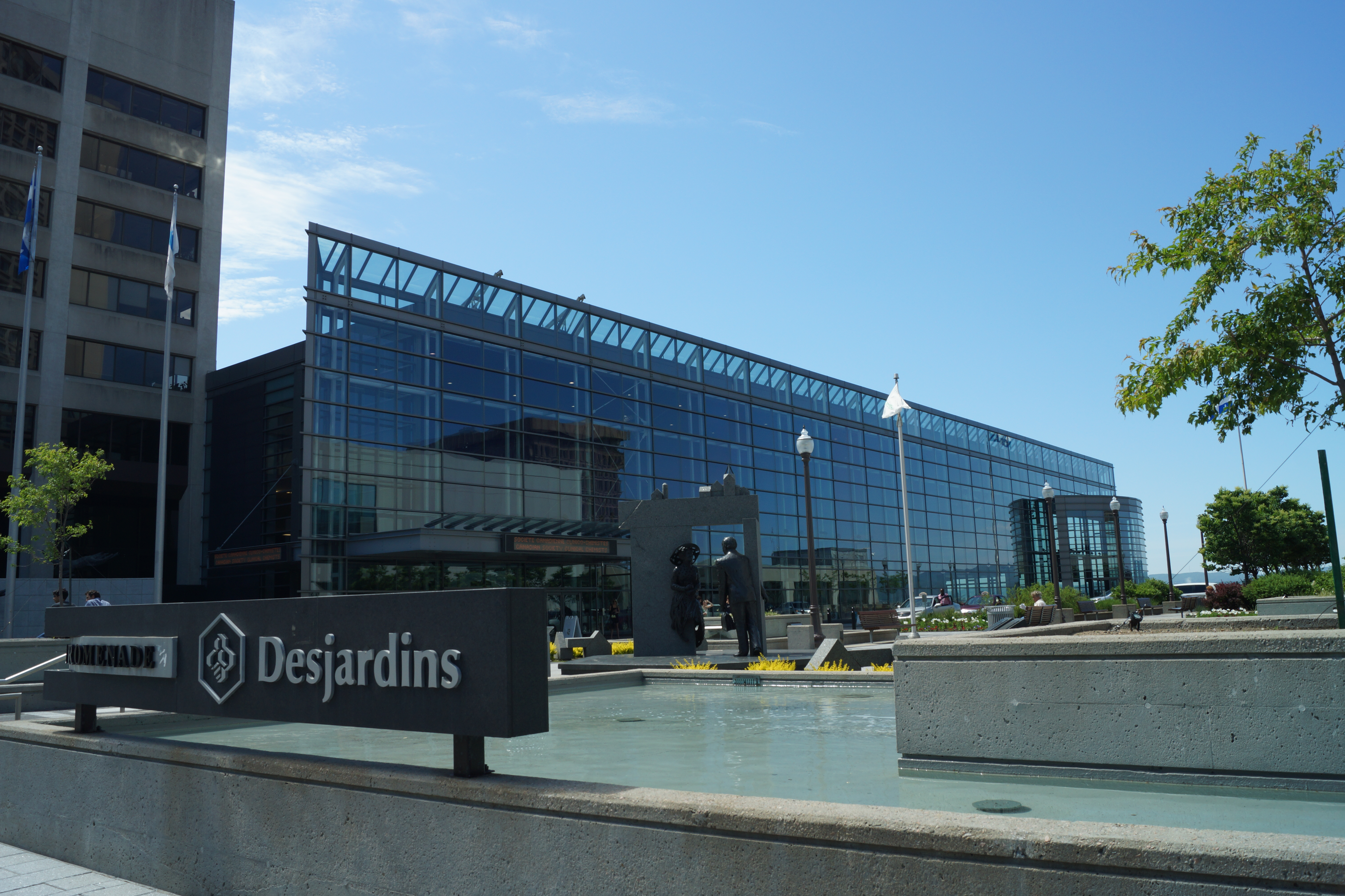 Quebec City Convention Centre.